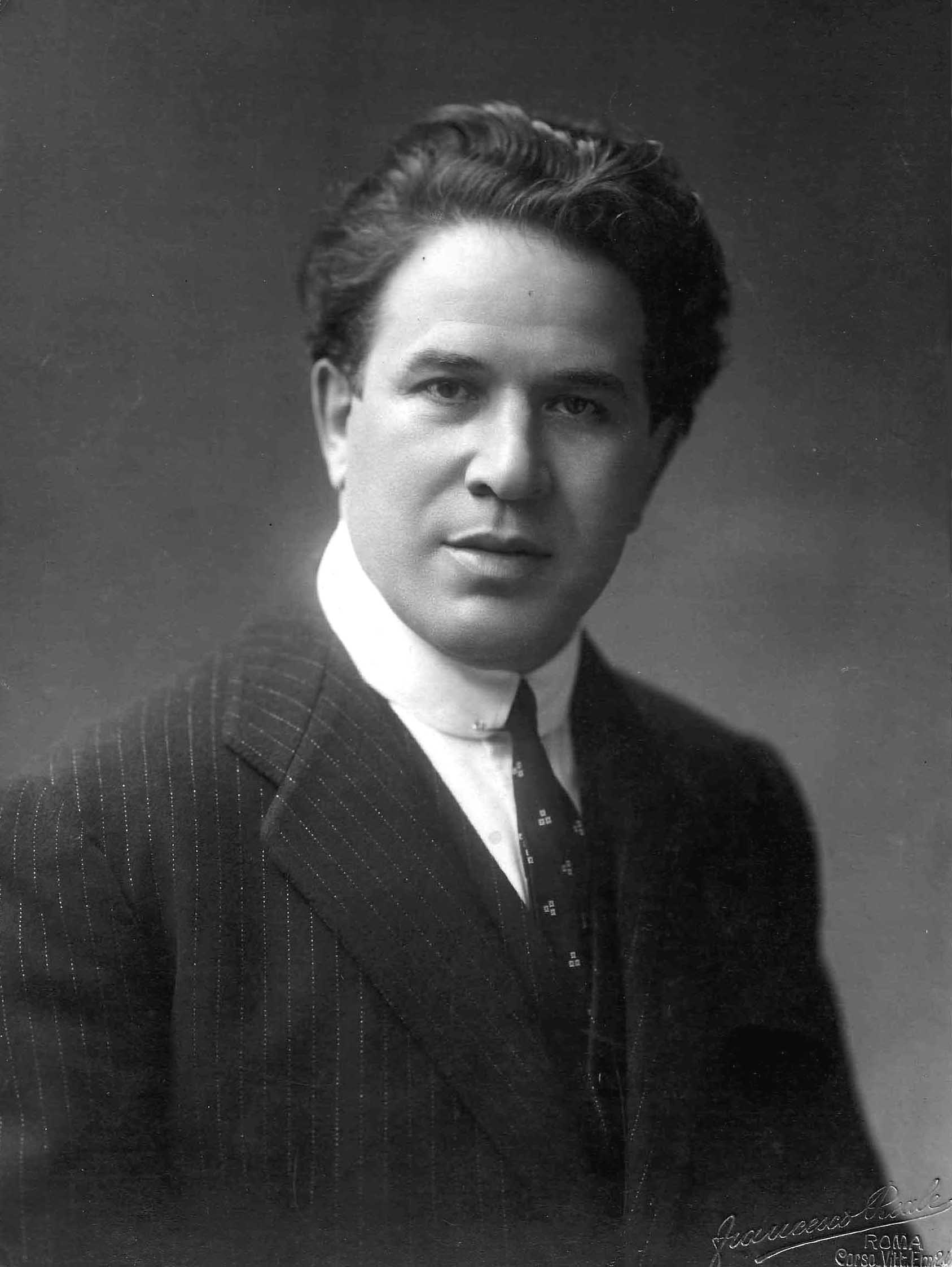 Portrait of Italian baritone Tita Ruffo, taken in Rome (as indicated at bottom)